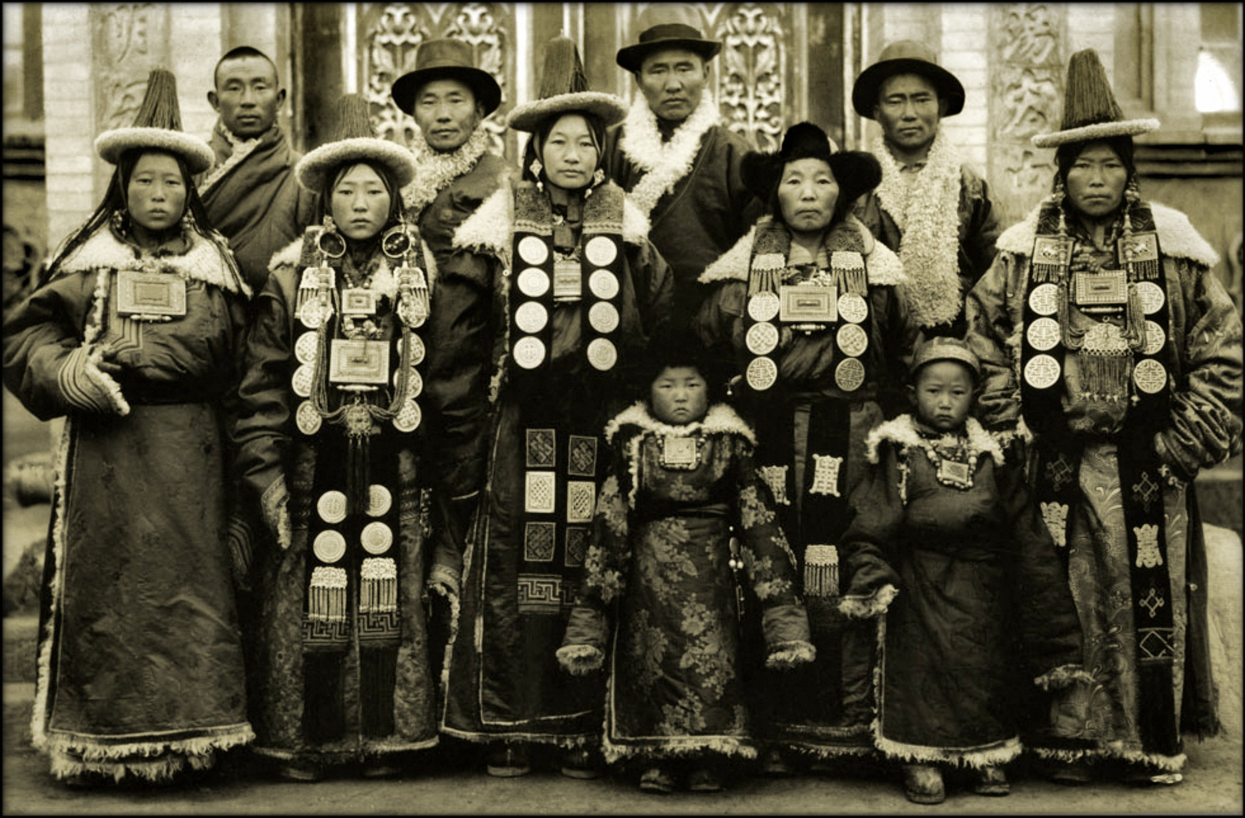 This is probably a Yugur family, looking at their hat and ornaments, see the modern version here :[1][2][3][4].Yugur are descendant of Mongols and Ouigours, leaving in Gansu, near Lanzhou. Popolon (talk) 00:06, 19 June 2013 (UTC).